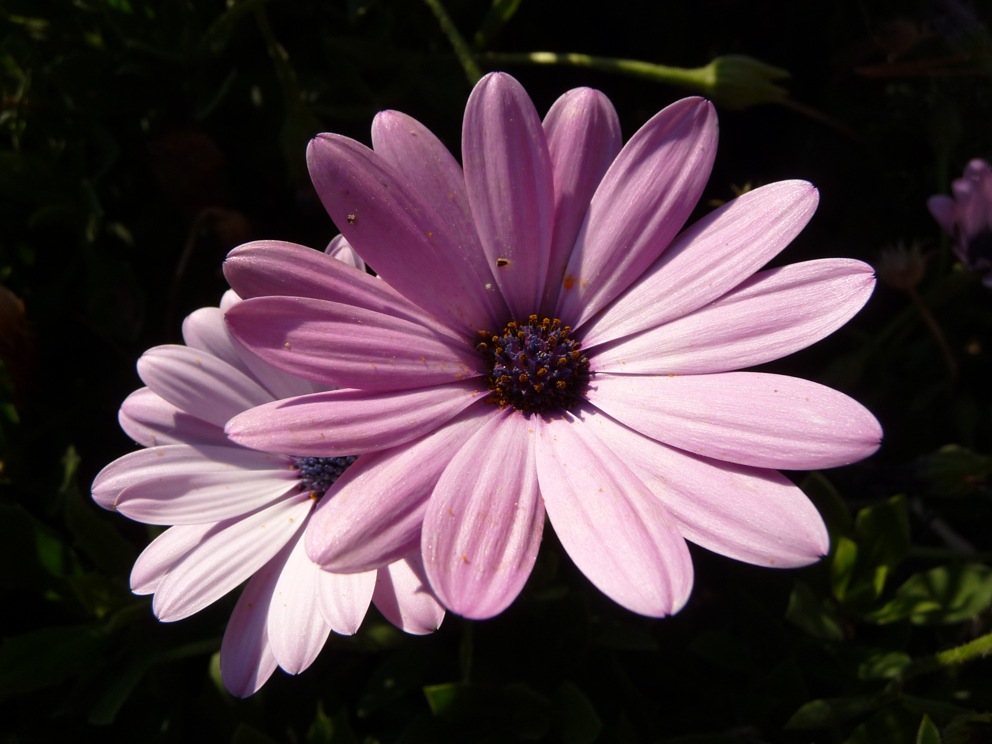 Beit Oren is a kibbutz in northern Israel. It falls under the jurisdiction of Hof HaCarmel Regional Council.